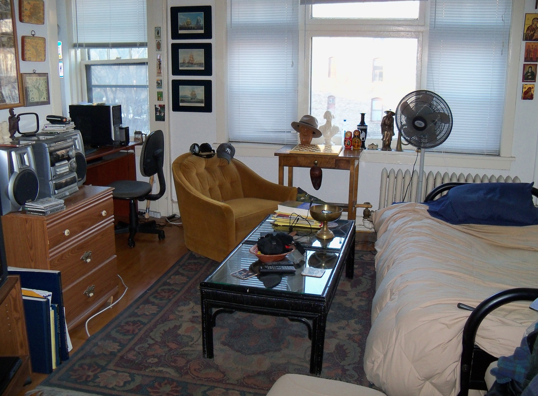 The main room of a studio apartment in Minneapolis, Minnesota, USA. A small alcove is partially visible to the left near the computer; not shown are the small bathroom, kitchen, and entry way.